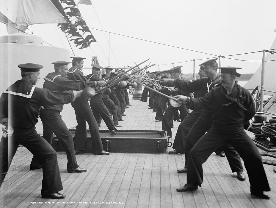 Singlestick practice on the U.S.S. New York